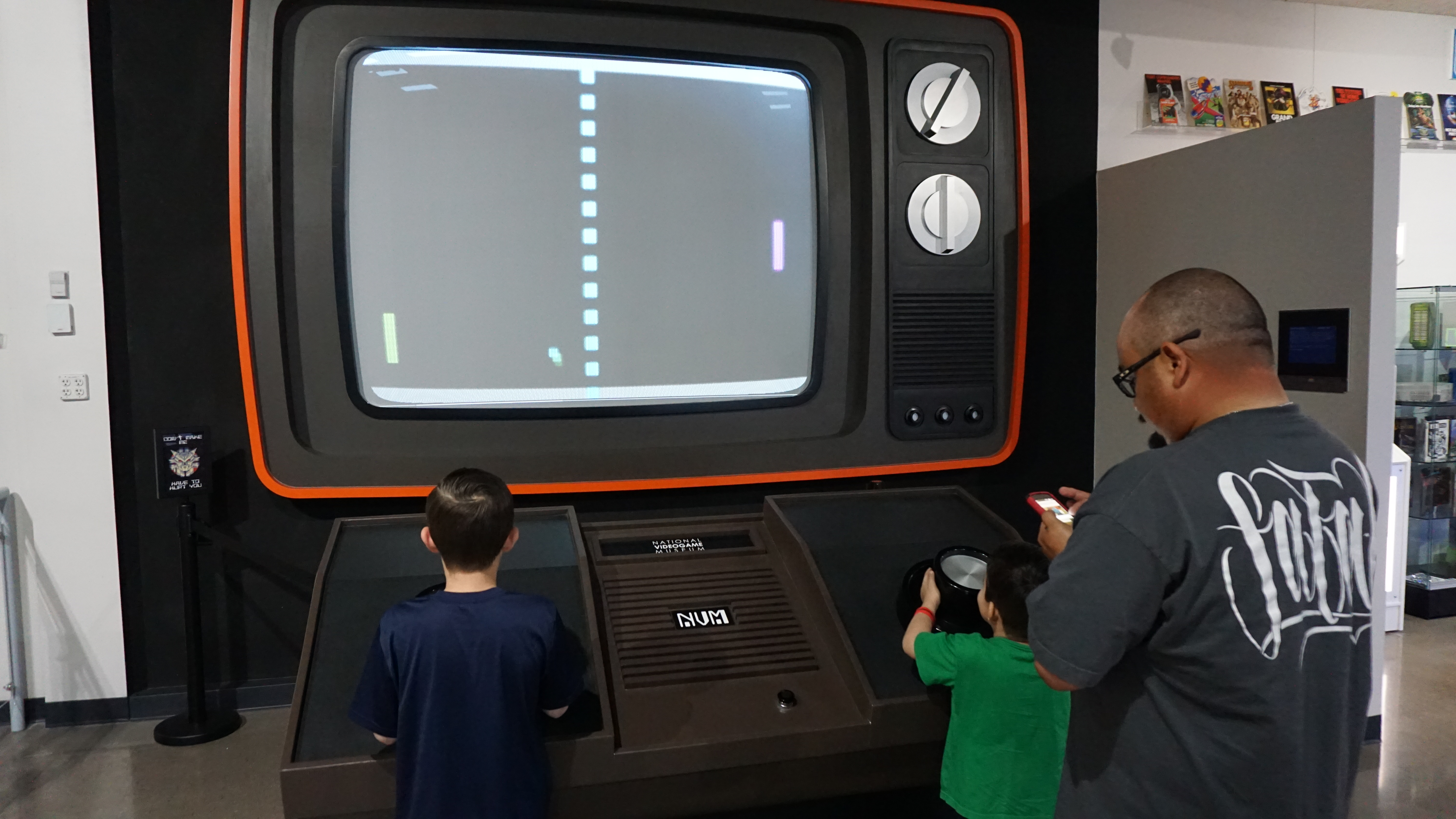 Normal size, not cartoonishly large at all, it's just like how I remember it